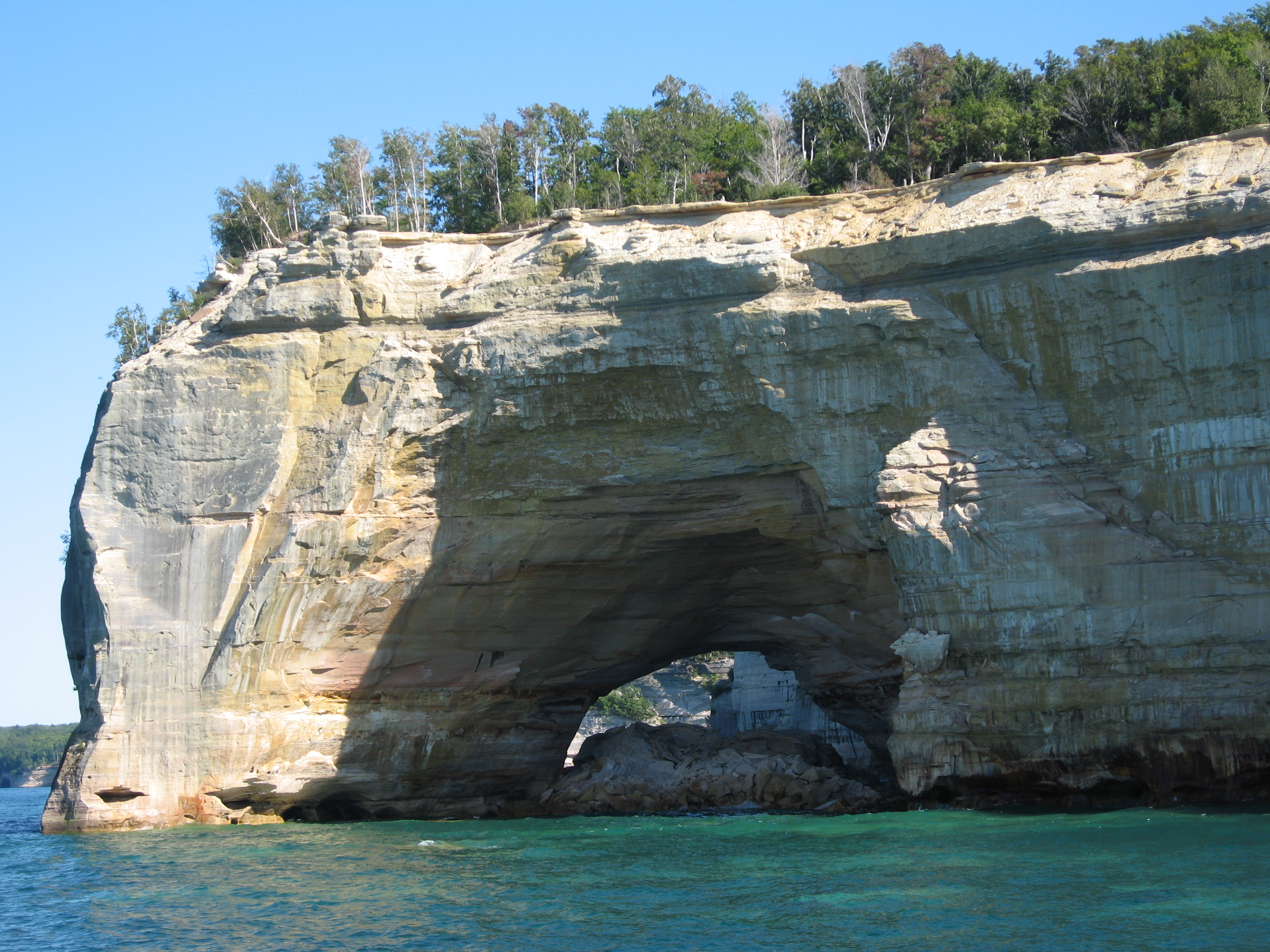 Grand portal at Pictured Rocks National Lakeshore. The location is a Registered Michigan State Historic Site.